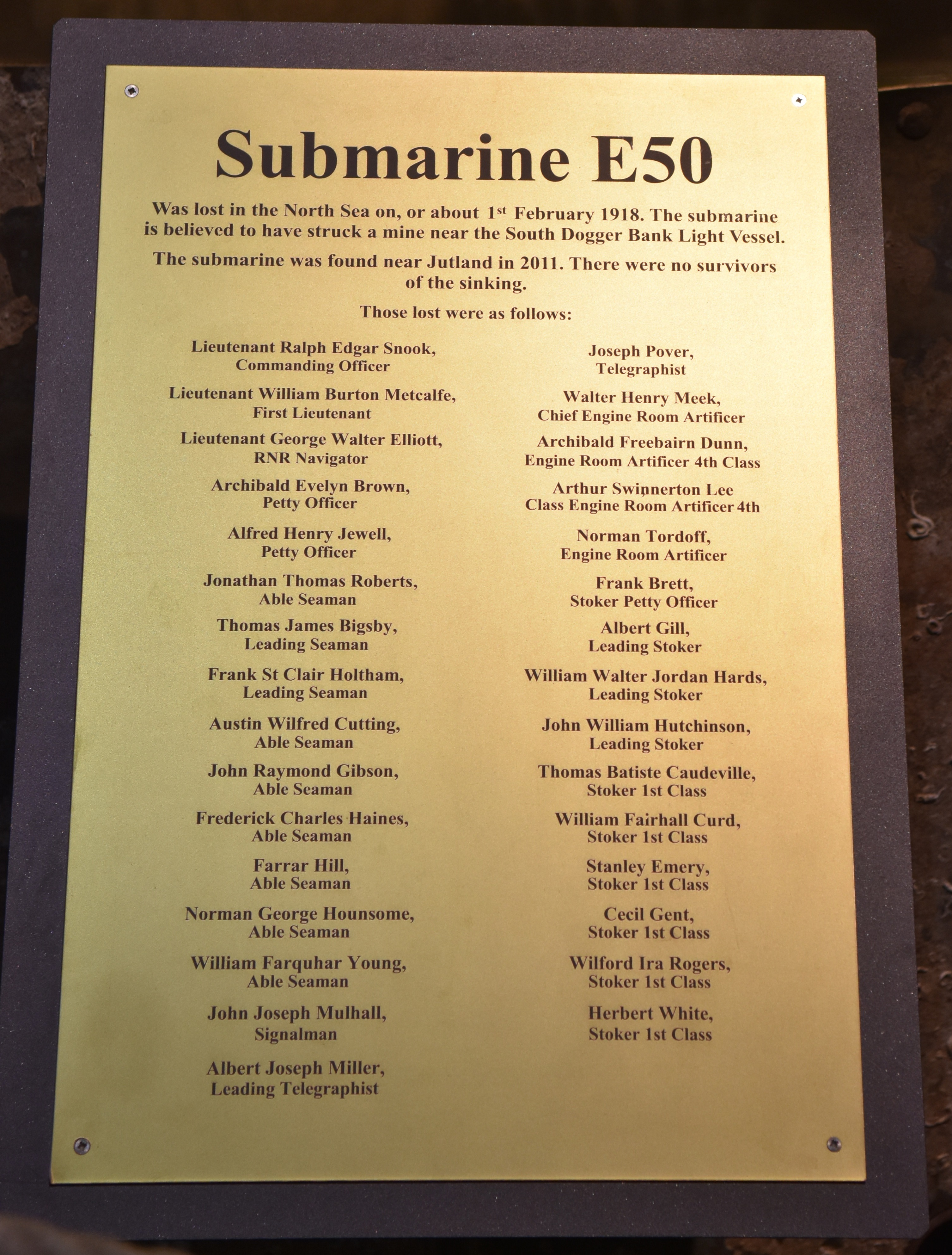 The commemoration plaque with the names of the men, who perished with HM E 50